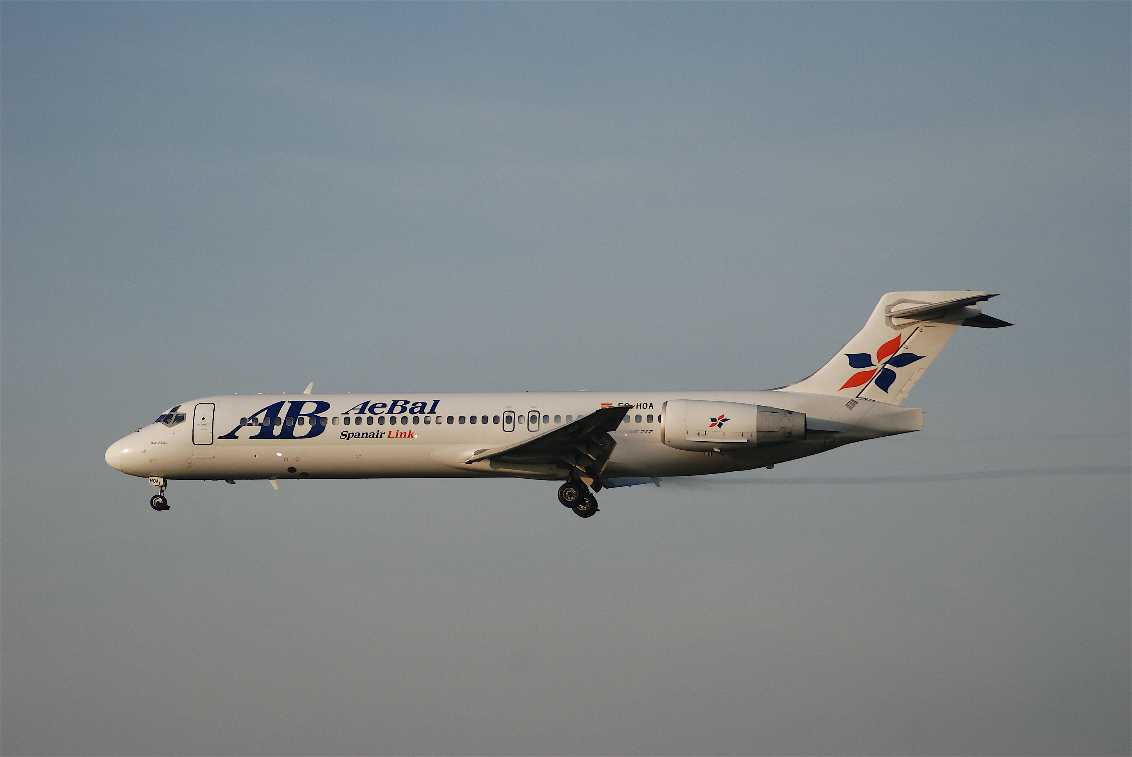 c/n 55061/ 5029 30/07/2000 AeBal - Aerolineas Baleares EC-HOA stored 03/2009 16/03/2009Quantum AirEC-HOA ceased operations on January 26, 2000 - stored as SE-REP 12/11/2010 Blue 1 OH-BLI